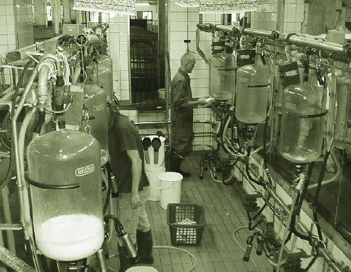 Finnish prison inmates working by cow milking machinery